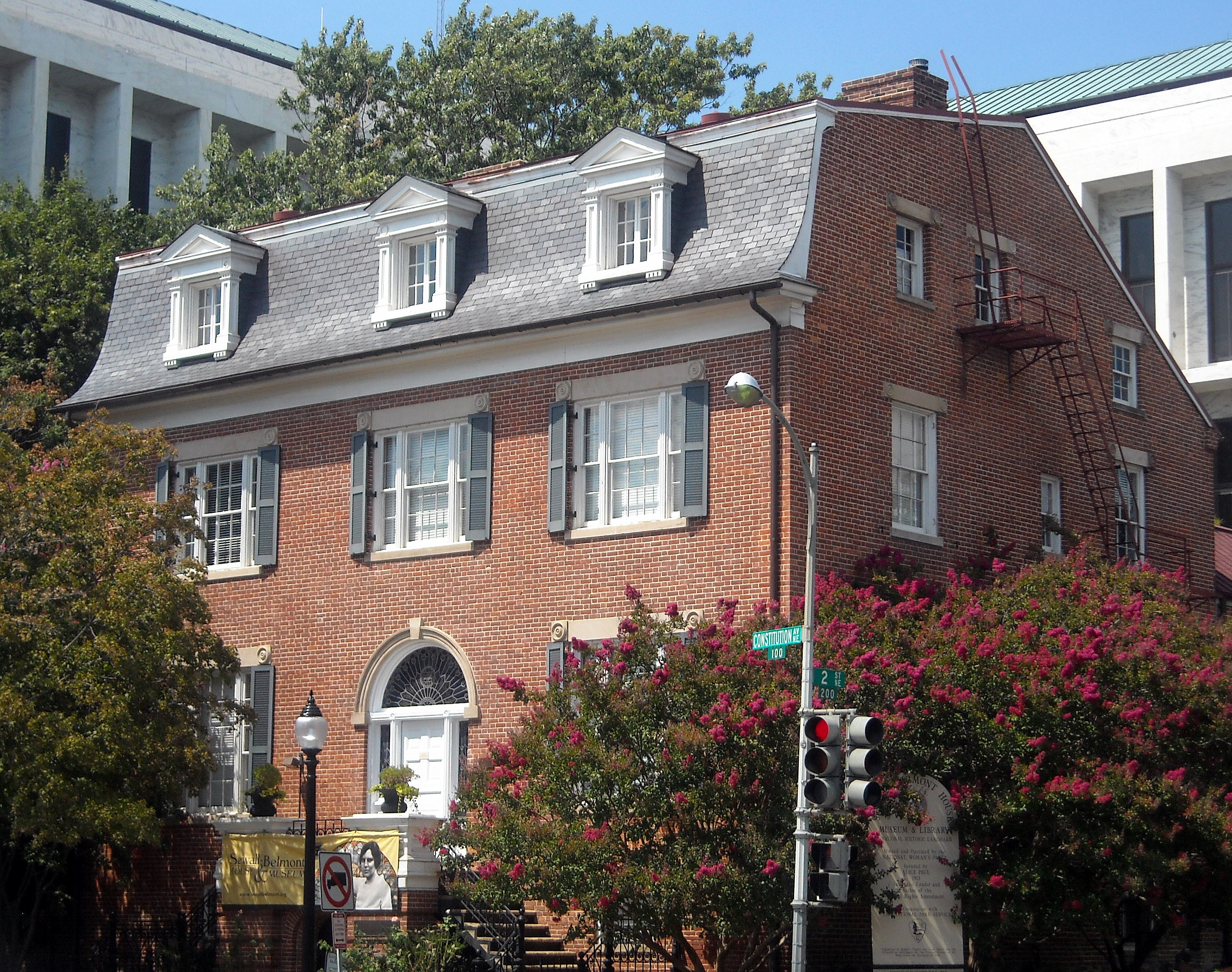 The Sewall-Belmont House and Museum, located at 144 Constitution Avenue, N.E., in the Capitol Hill neighborhood of Washington, D.C.